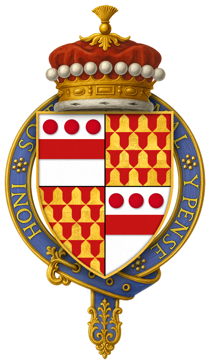 Coat of arms of Sir Walter Devereux, 1st Viscount Hereford, KG Lord Ferrers' stall plate remains installed within St. George's Chapel. The arms are, quarterly: 1 and 4, argent a fess gules in chief three torteaux (Devereux); 2 and 3, vairy or and gules (Ferrers).